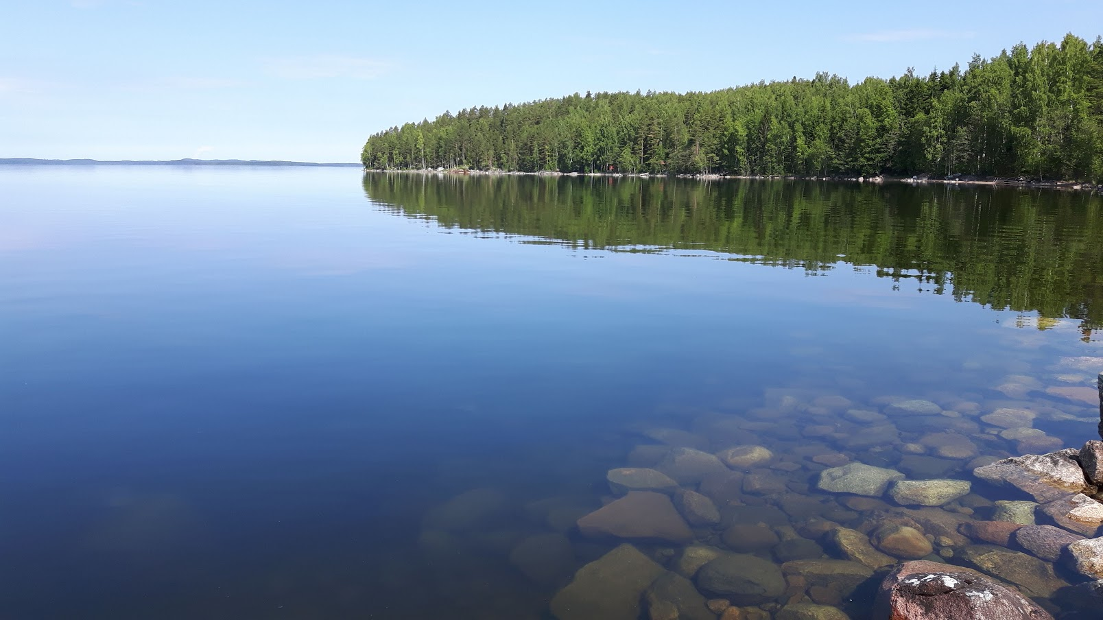 Karelian Country Cottages. Lake Saimaa, Finland.